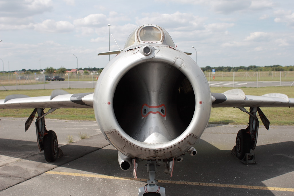 MiG-15 bis (Front view) Airforce Museum of the Bundeswehr; Berlin-Gatow